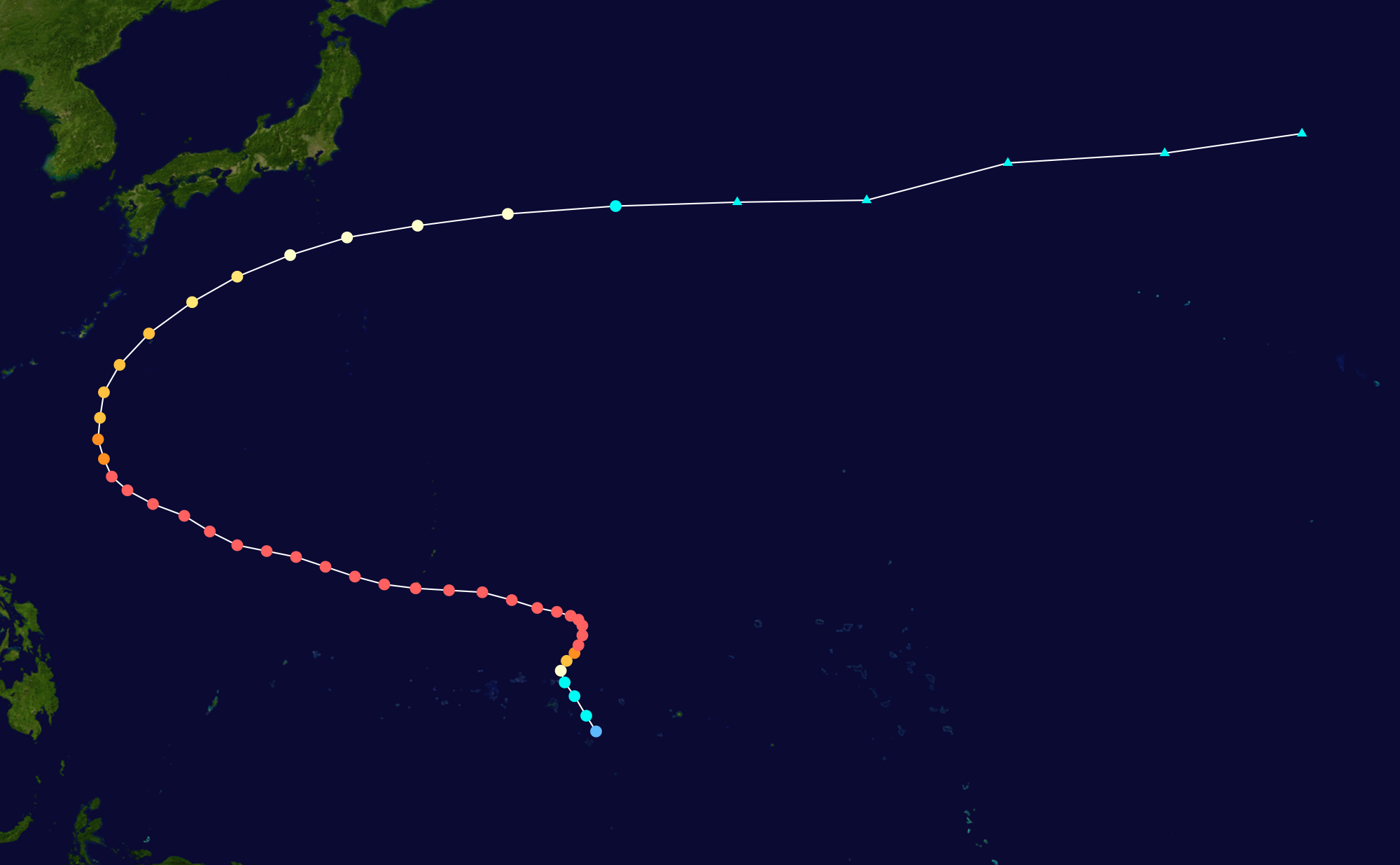 Typhoon Karen (1962) track. Uses the color scheme from the Saffir-Simpson Hurricane Scale.